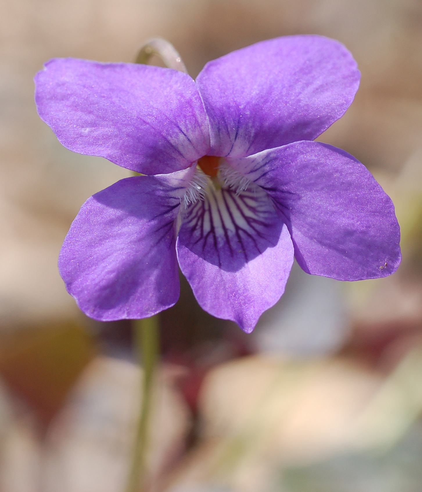 Photograph of a flower of the Alpine Violeten (Viola labradorica en ). Photo taken at the Mt. Cuba Center where it was identified.